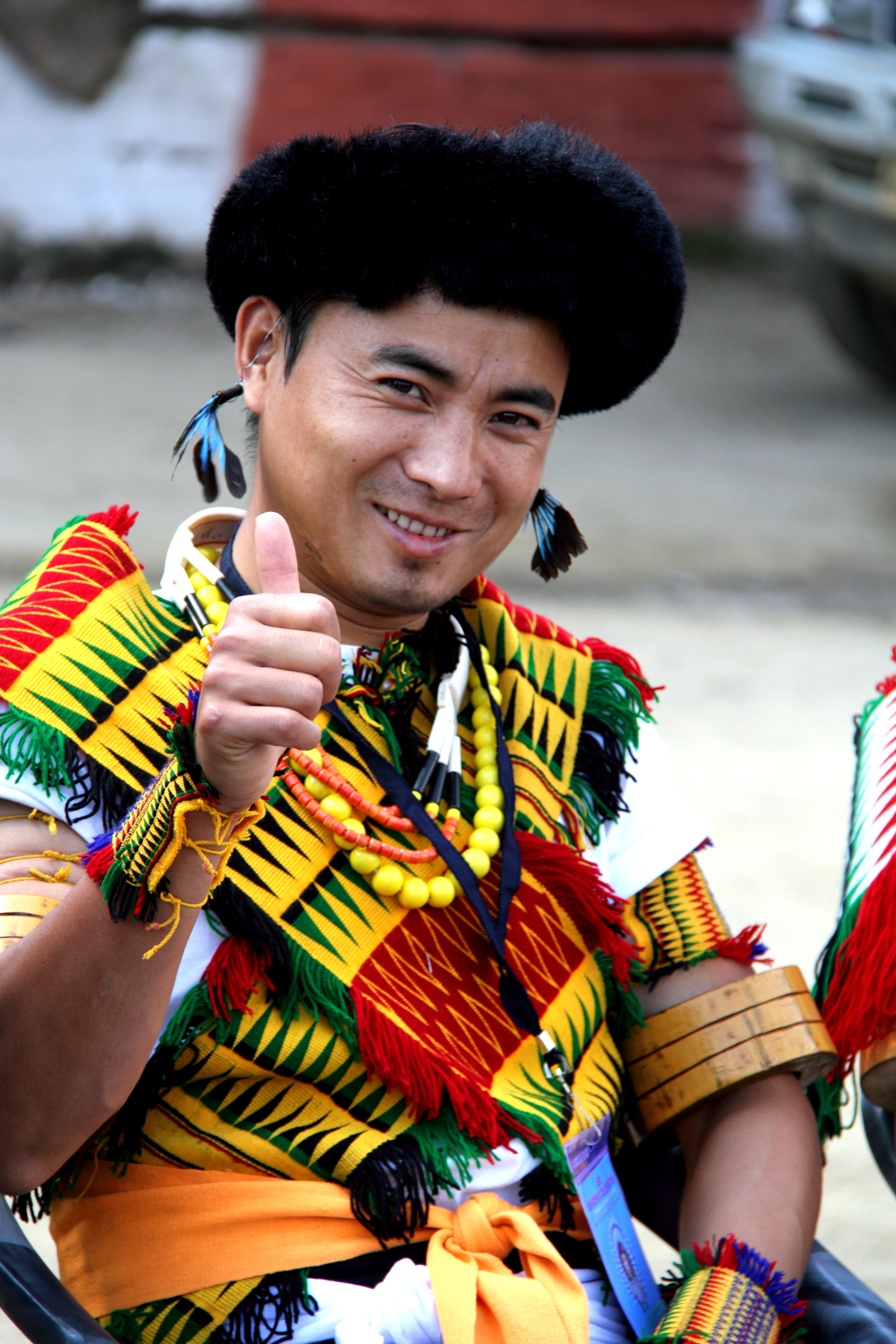 india, Nagaland, men of angami tribe